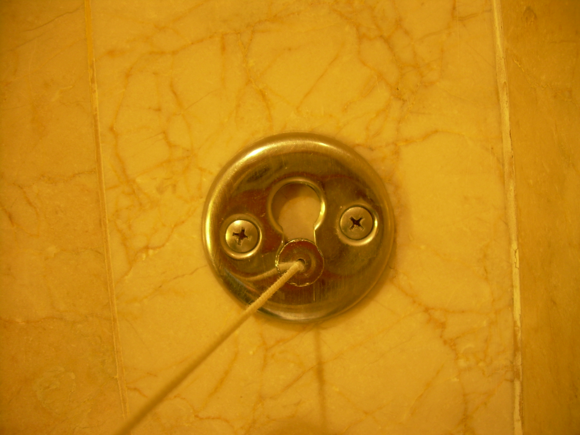 Retractable clothes line, hook-part